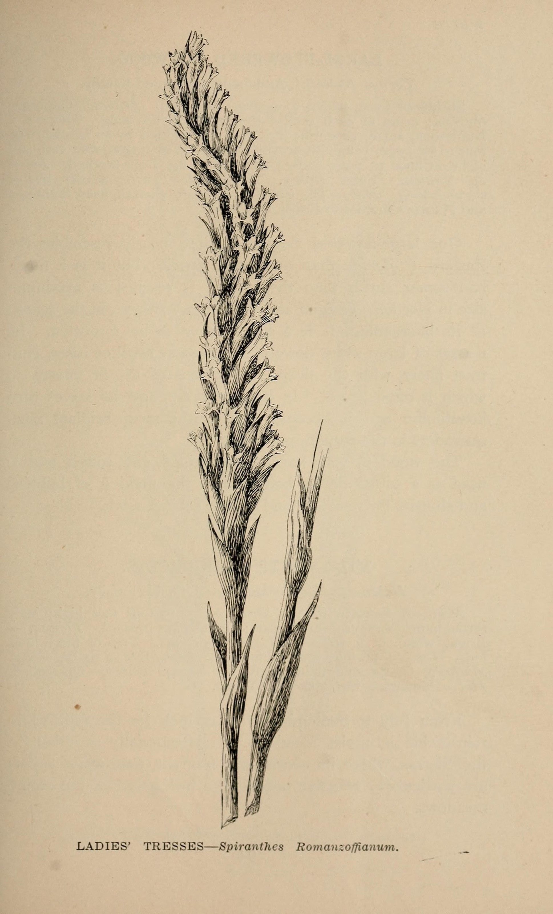 Ladie's Tresses (Spiranthes Romanzoffianum, now Spiranthes Romanzoffiana), from a drawing by Margaret Warriner Buck